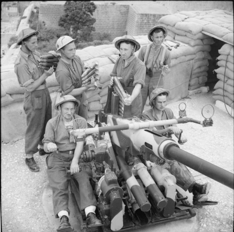 The British Army on Malta 1942 A 40mm Bofors anti-aircraft gun and crew, Malta, 12 May 1942.